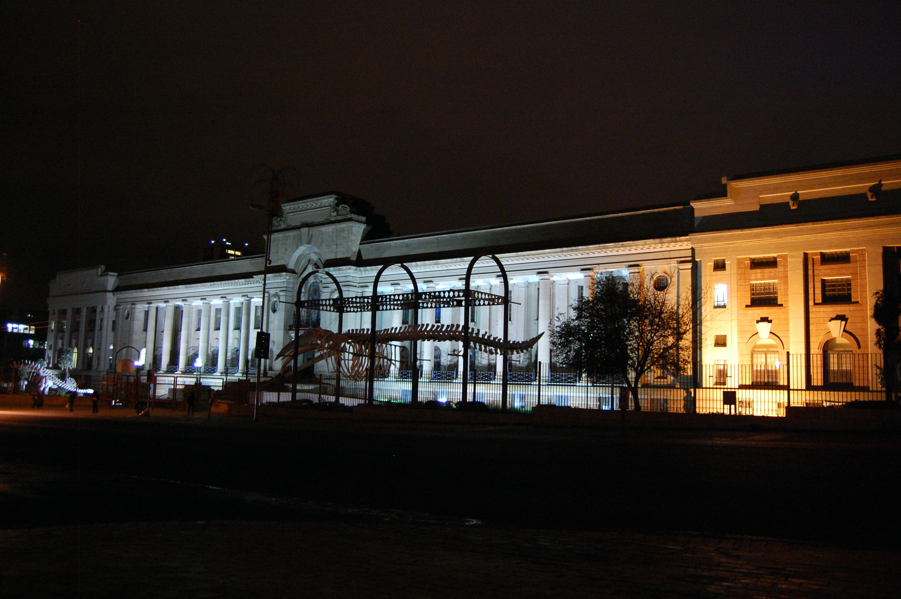 Transvaal Museum This media shows a South African Protected Site with SAHRA file reference 9/2/258/0100.